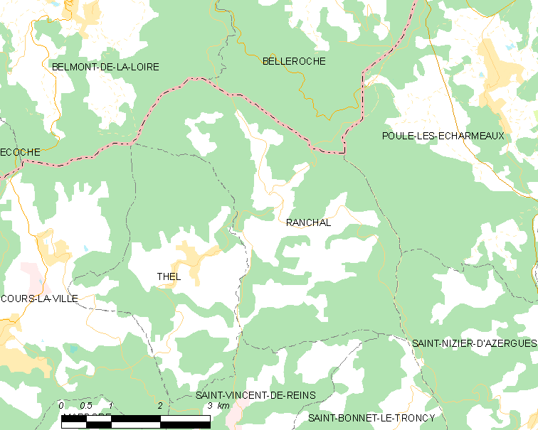 Map of French municipality